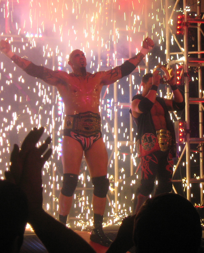 Travis Tomko and AJ Styles